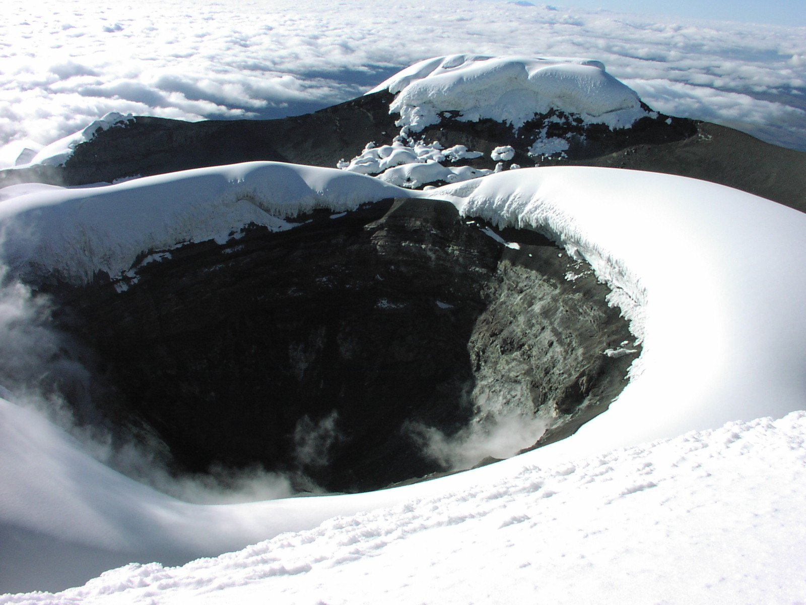 Crater of the Cotopaxi volcano, Ecuador